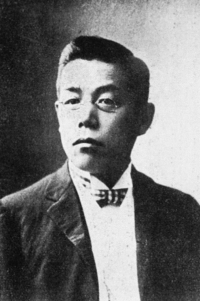 Seikyo Naruse